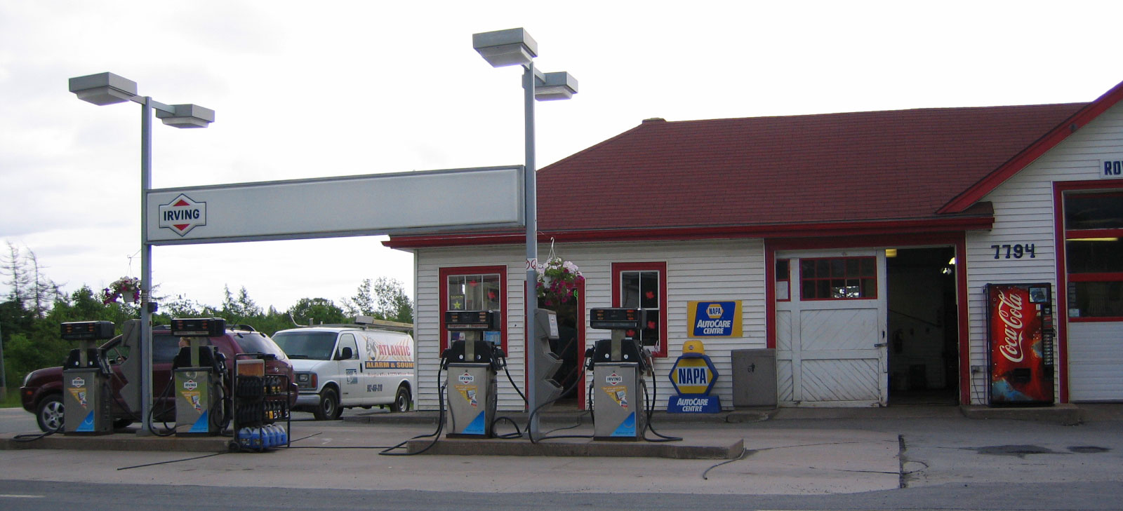 One of the original Irving Oil stations, in Musquodoboit Harbour, Nova Scotia.